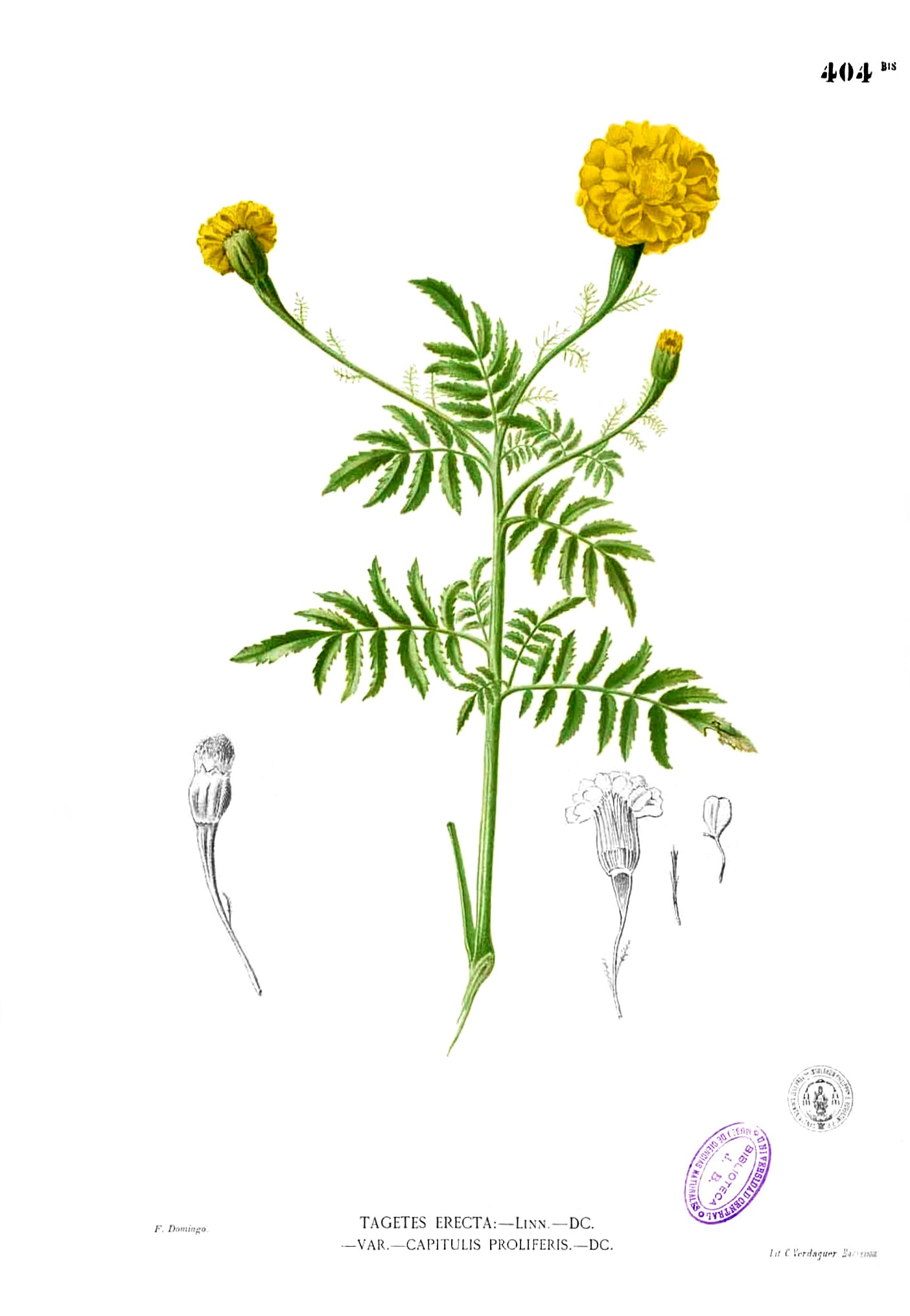 Plate from book